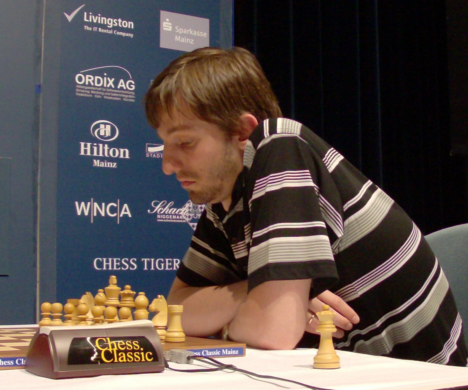 Alexander Grischuk, chess grandmaster from Russia